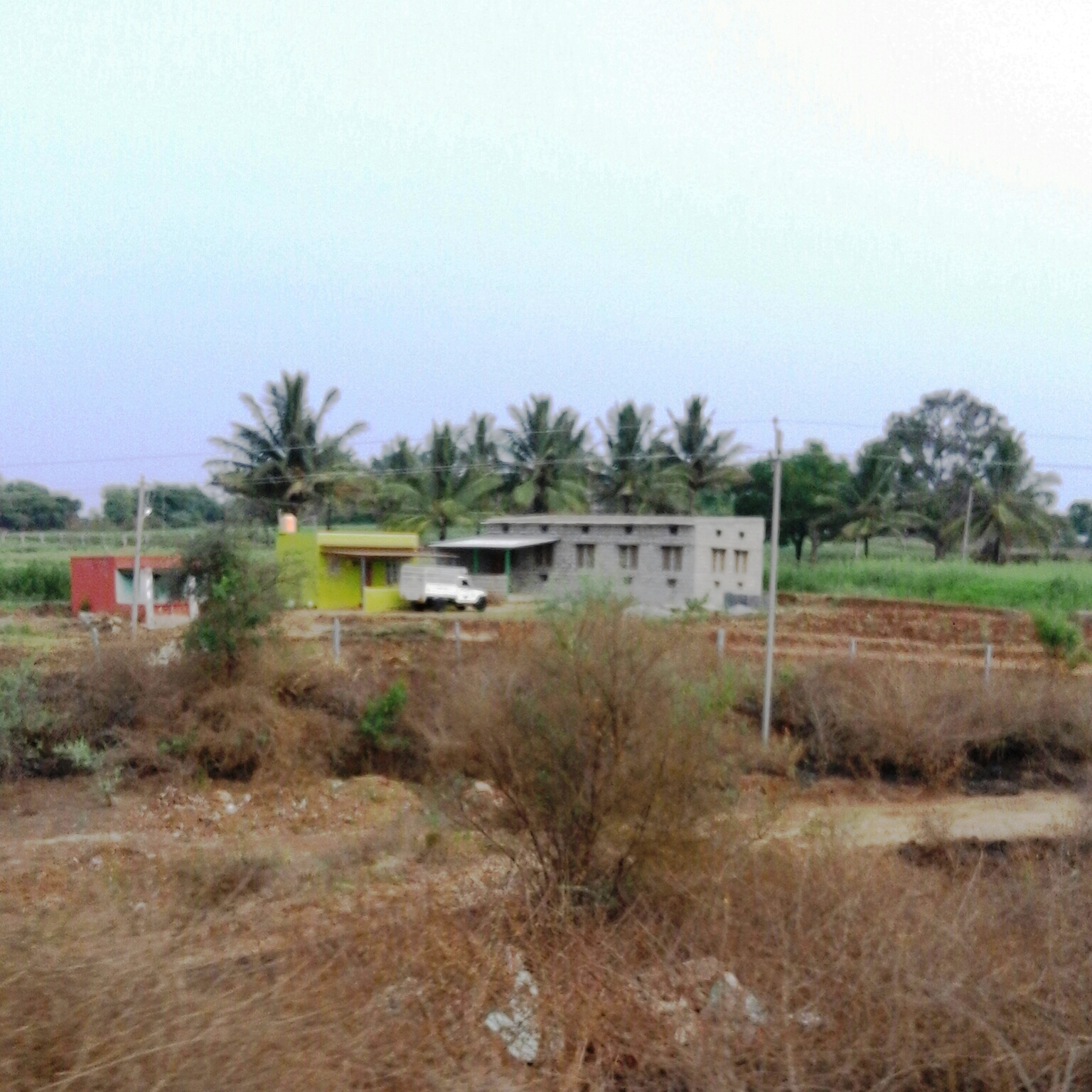 Mananthavady Road, Mysore district, Karnataka province, India.